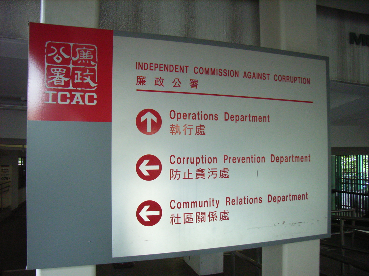 美利道停車場大廈, Queensway Bay Road, HK Island Photo by User:QWB656